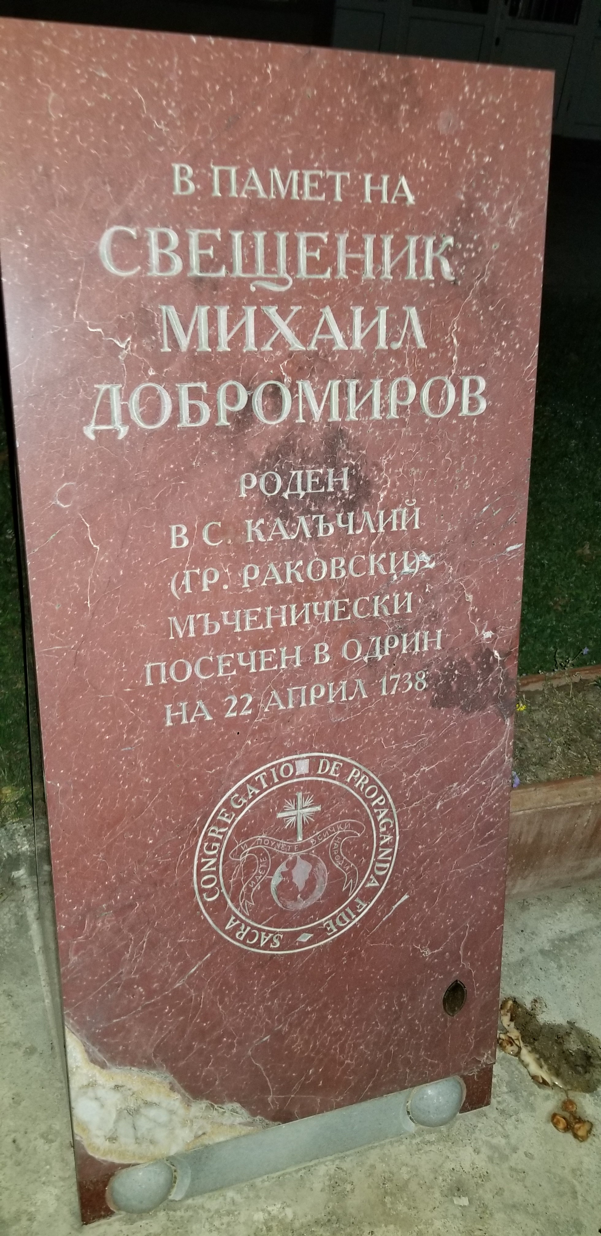 Plaque of Michael Dobromirov in Rakovski